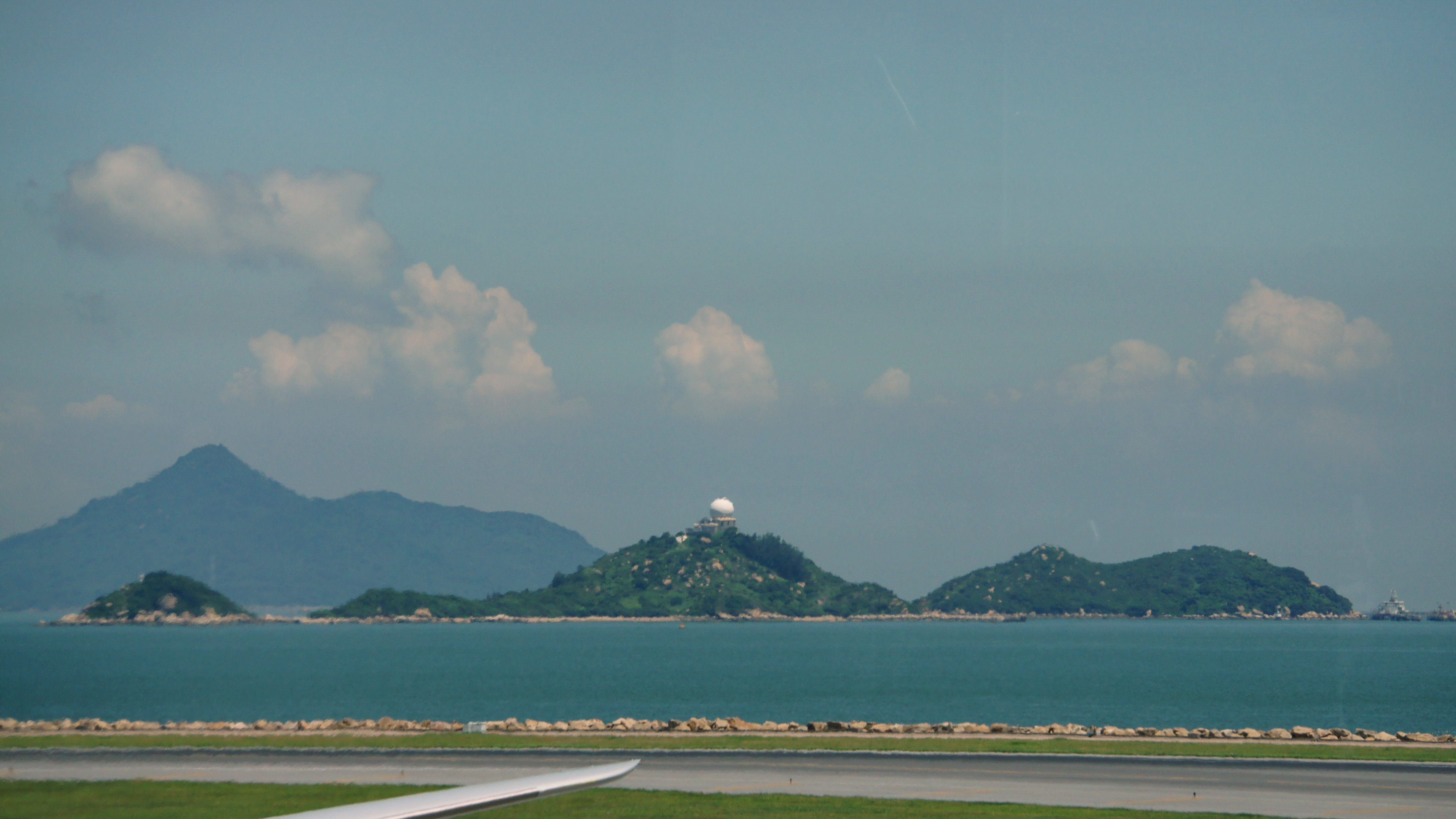 View from Hong Kong International Airport. Sha Chau, an island in the northwest waters of Hong Kong. From left to right: Ha Sha Chau, Tai Sha Chau, Sheung Sha Chau. Nei Lingding Island is visible in the background.